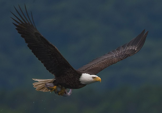 Bald Eagle with fish from Kodiak, Alaska